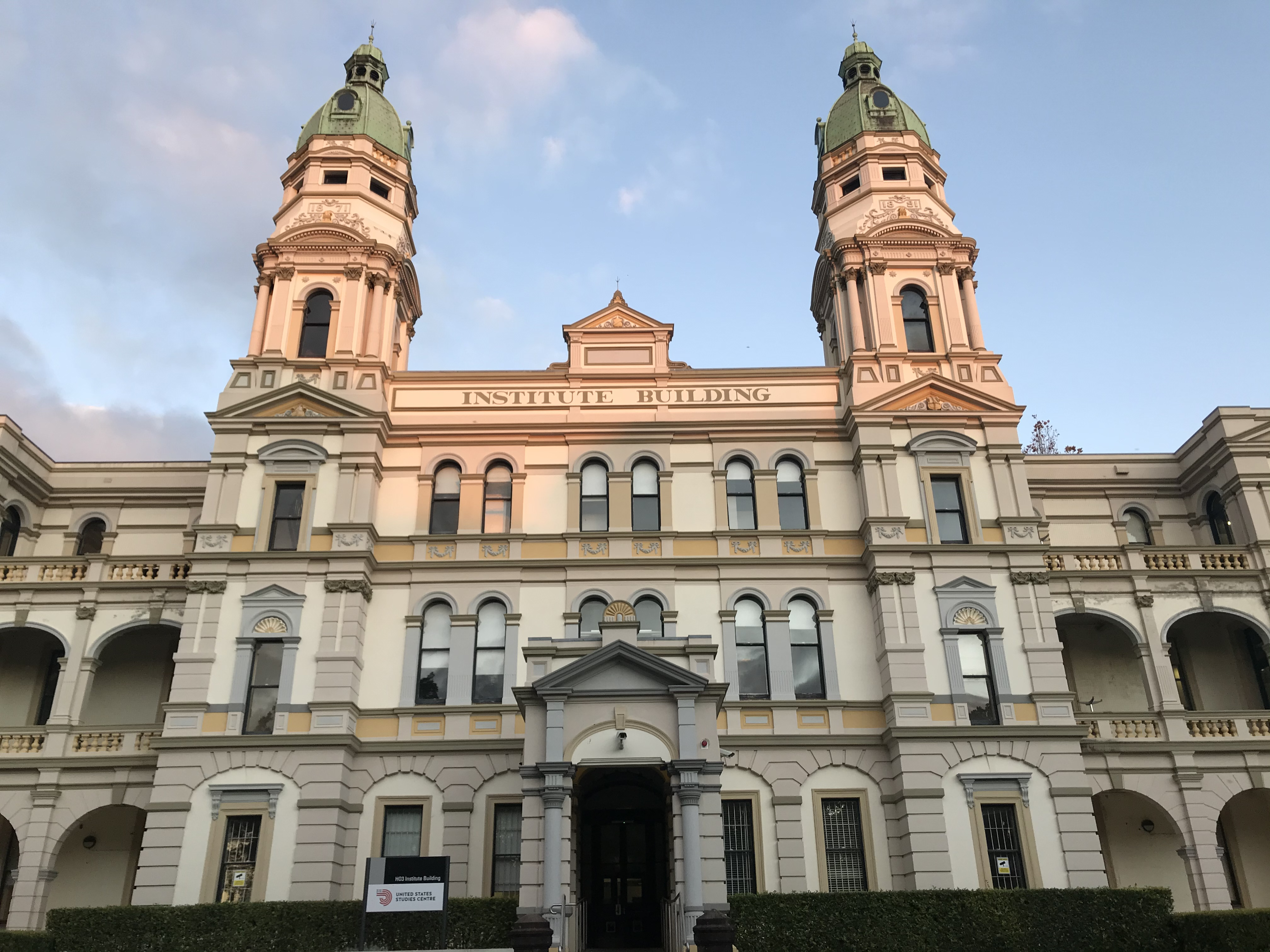 Main entrance of Institute Building of the University of Sydney.